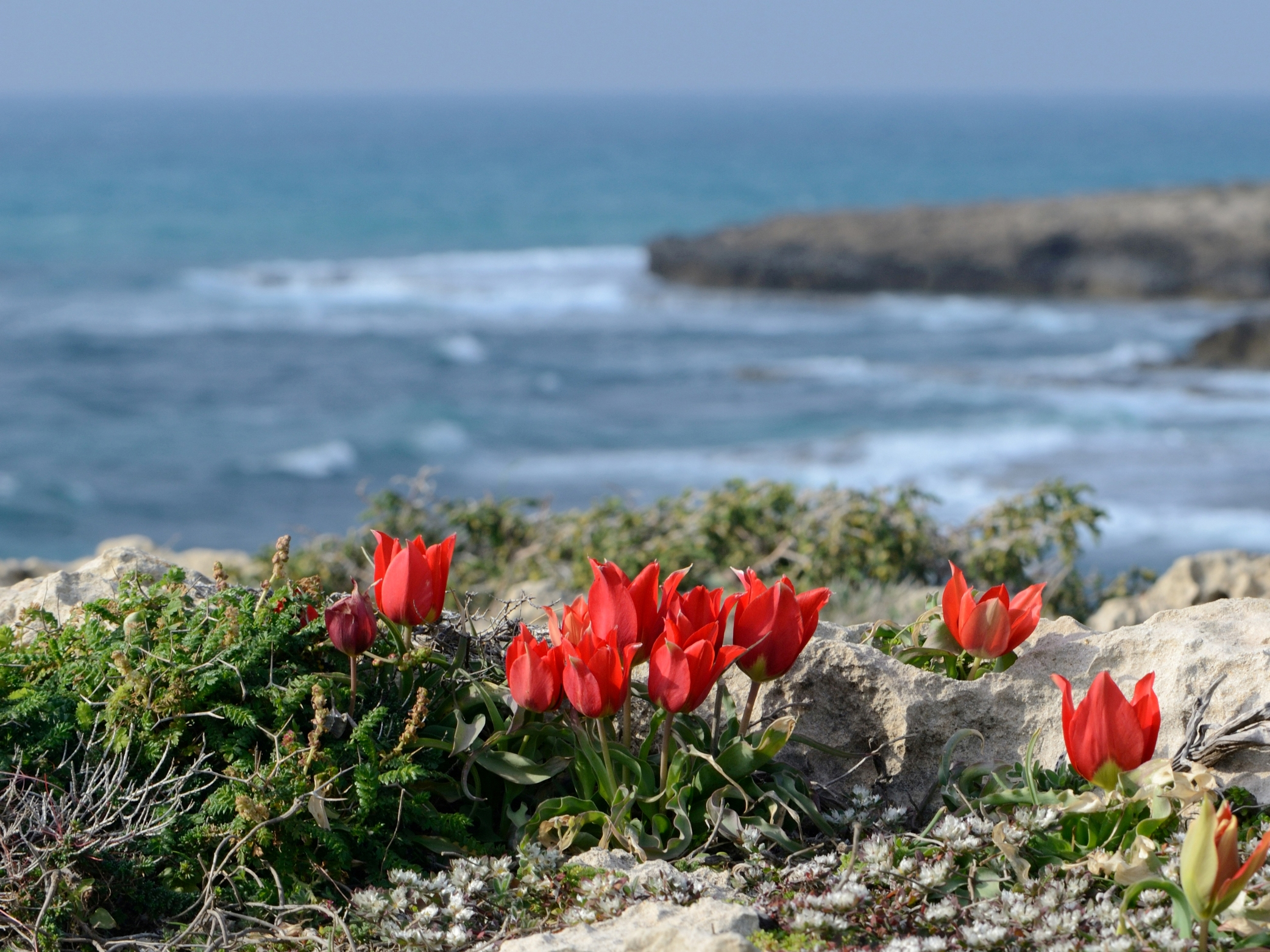 Tulipa agenensis sharonensis (Dinsm.) Feinbrun, Dor-Habonim Beach, Israel, February 26, 2012.